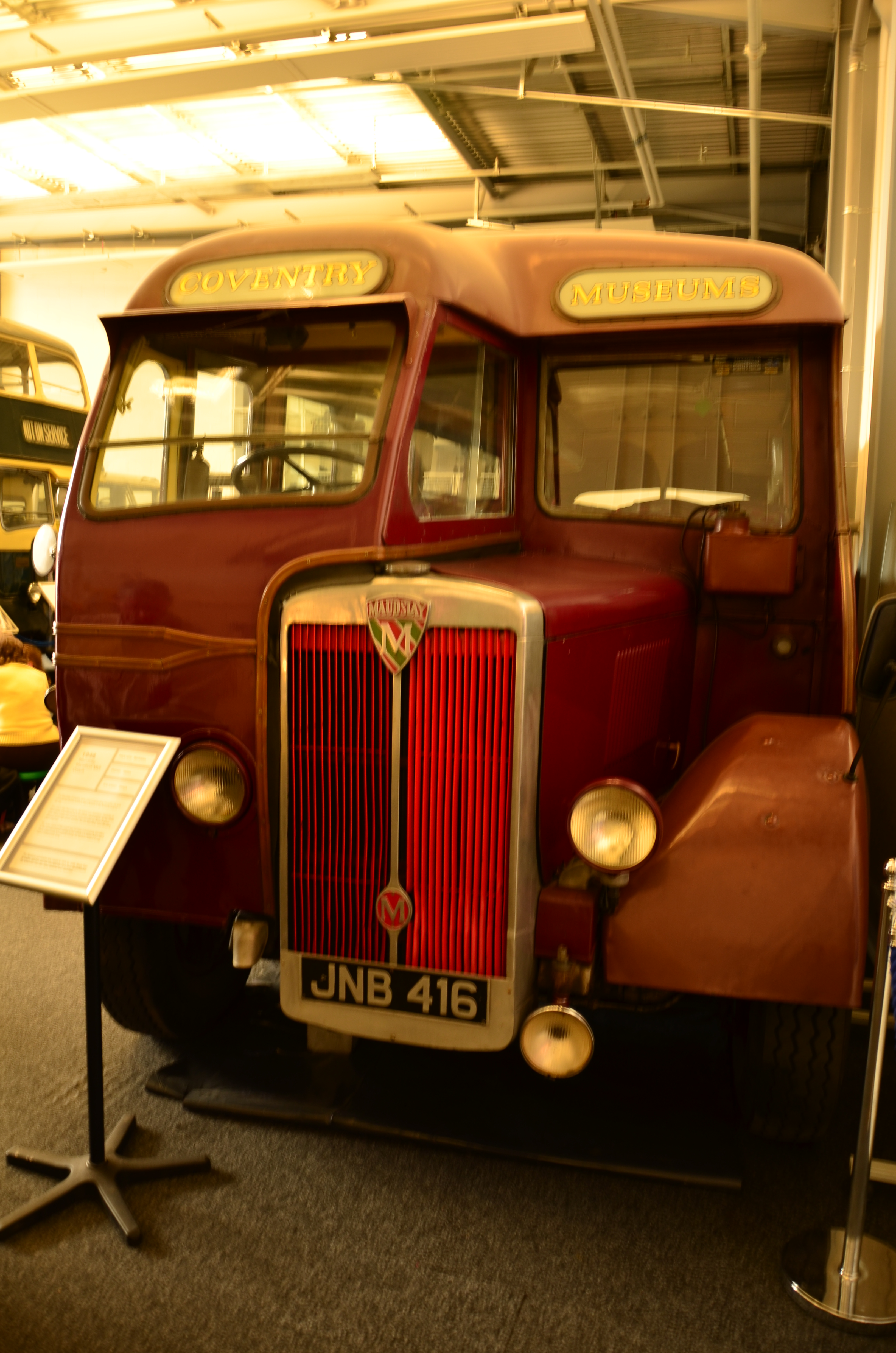 Preserved Hackett Coaches coach (reg. JNB 416), a 1948 Maudslay Marathon II single-decker with Trans-United 33 seat front doored coach bodywork, pictured at the Coventry Transport Museum in Coventry, West Midlands.